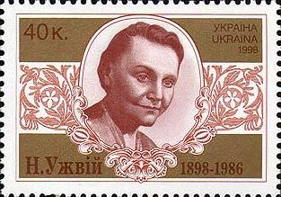 Stamp of Ukraine